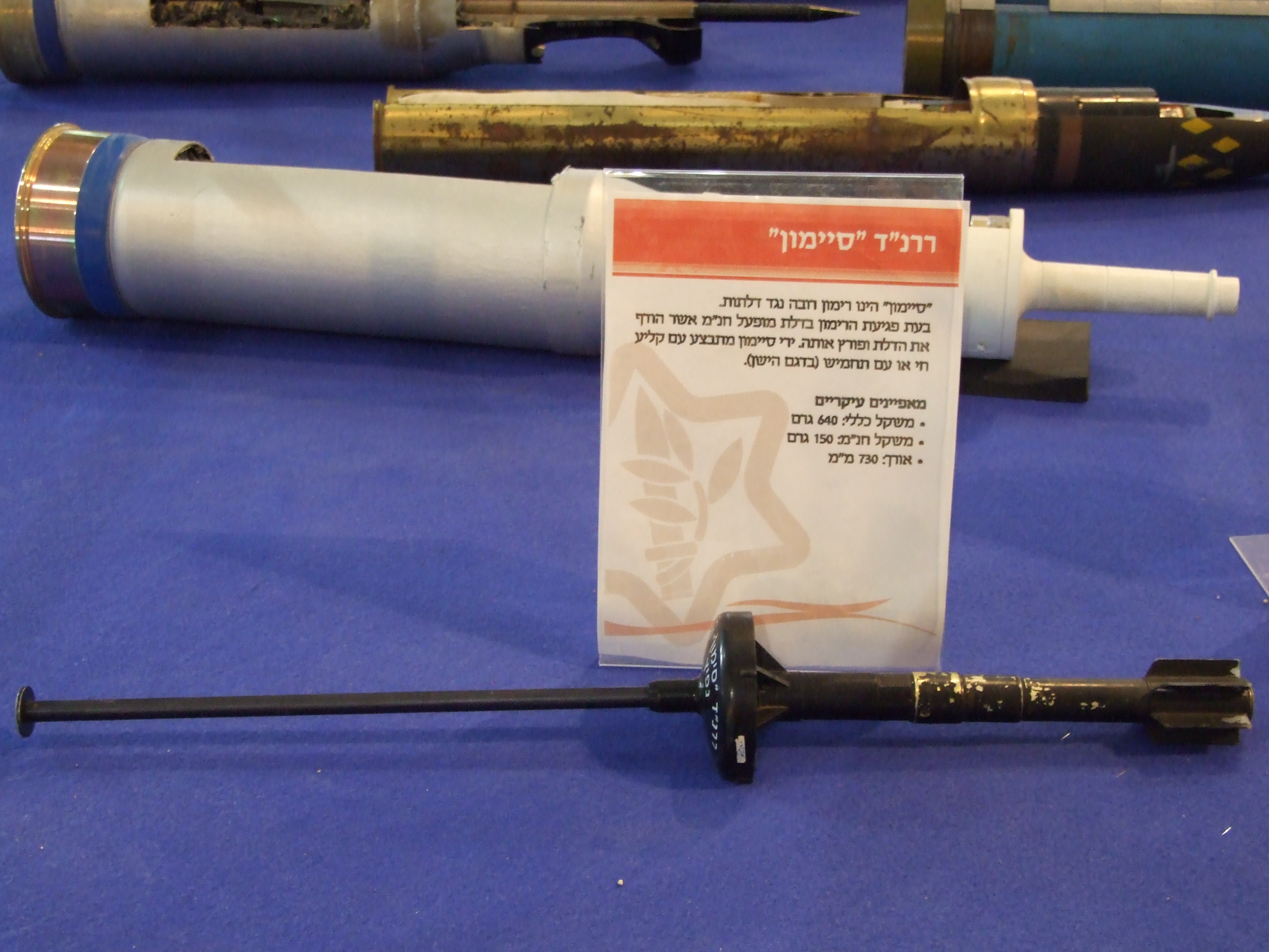 סימון - רימון רובה נגד דלתות SIMON breach grenade